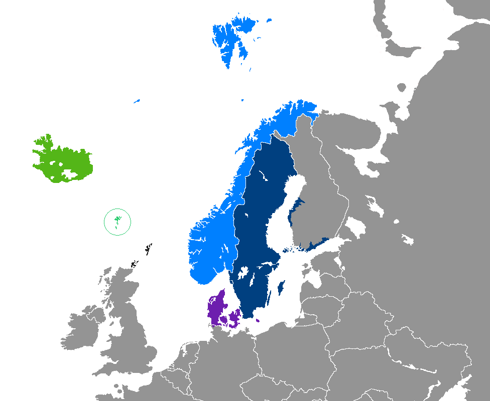 Icelandic Faroe Norwegian Swedish Danish Norn (†)